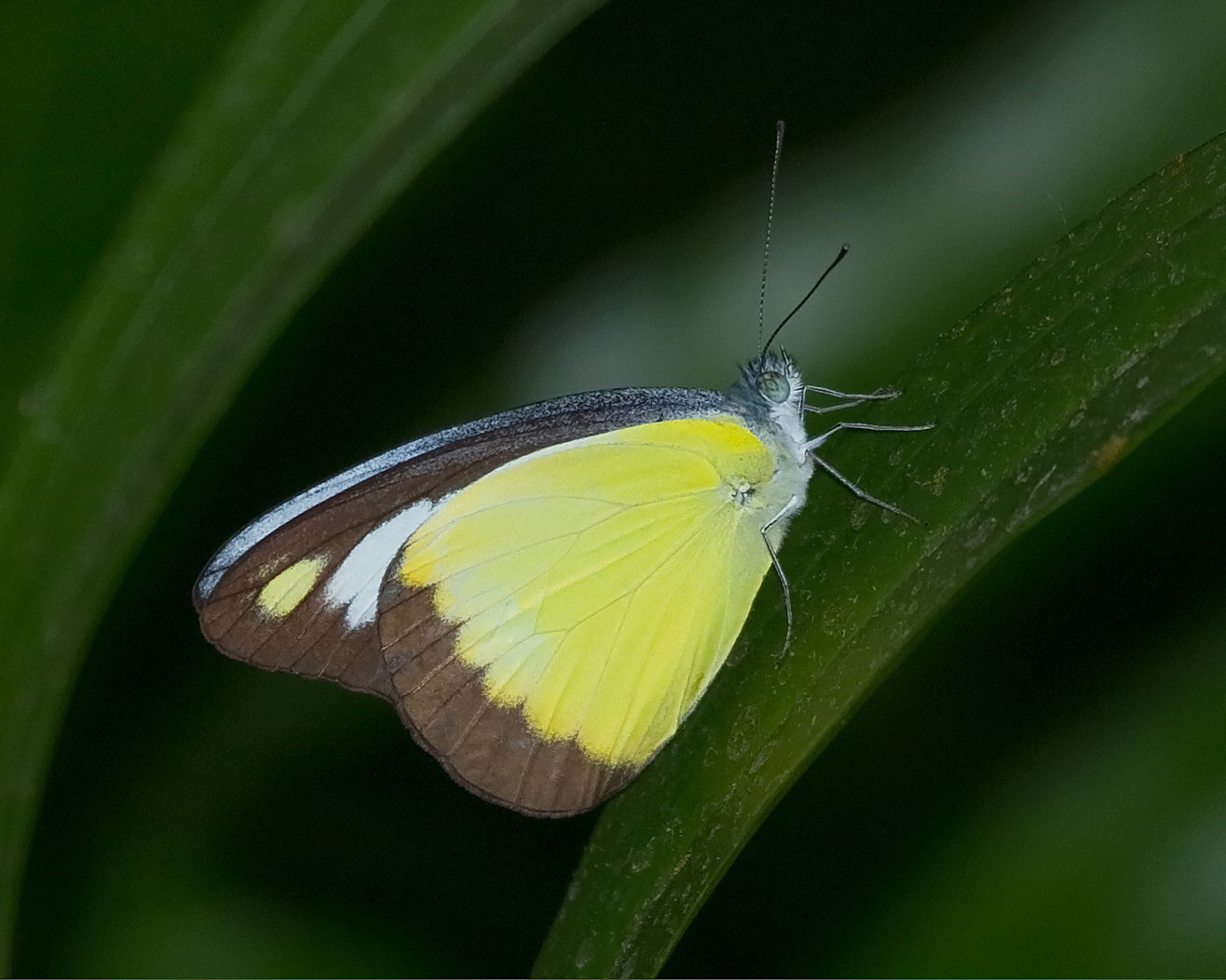 Chocolate albatross - taken at Krohn Conservatory Butterfly show.